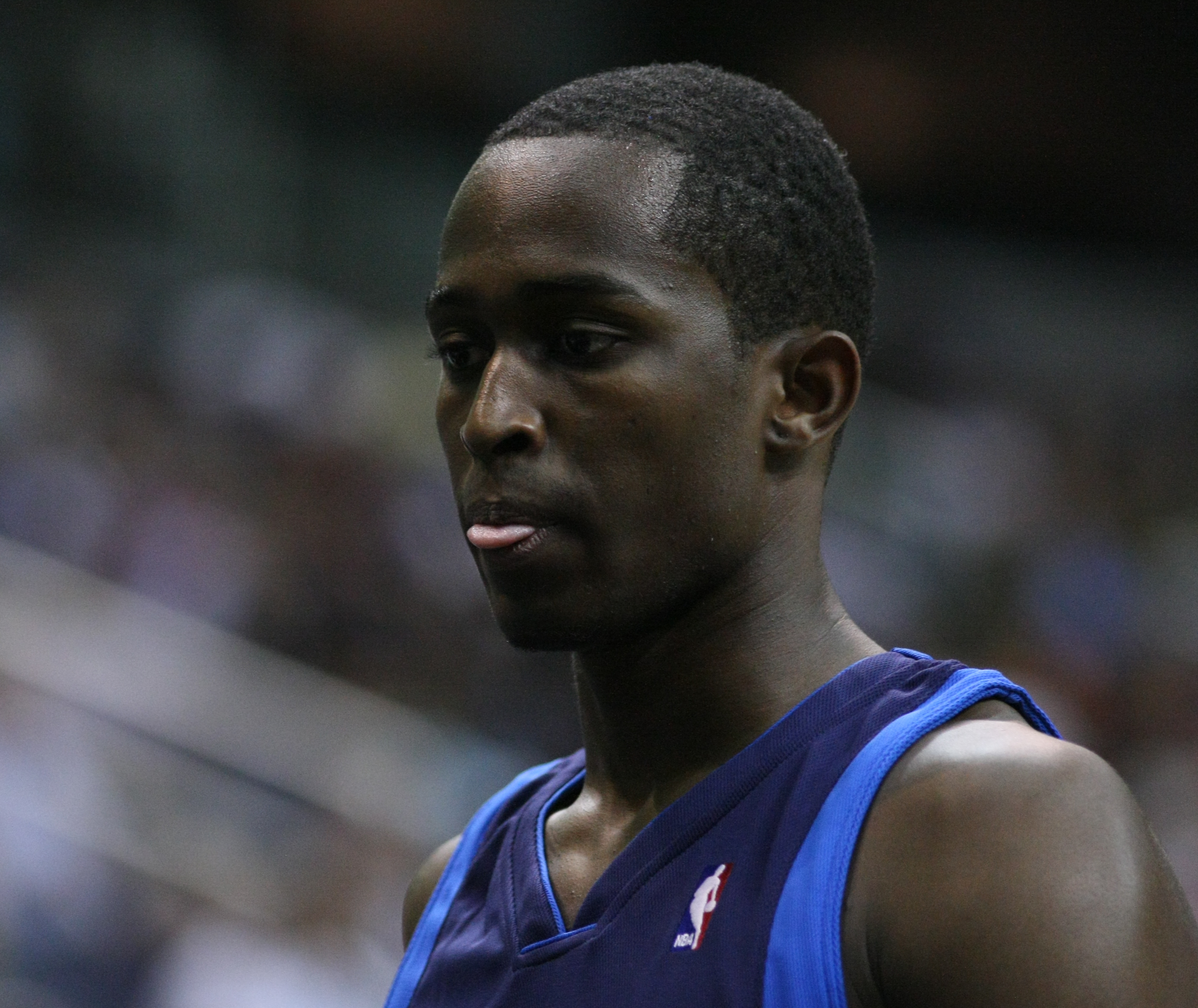 Rodrigue Beaubois playing with the Dallas Mavericks